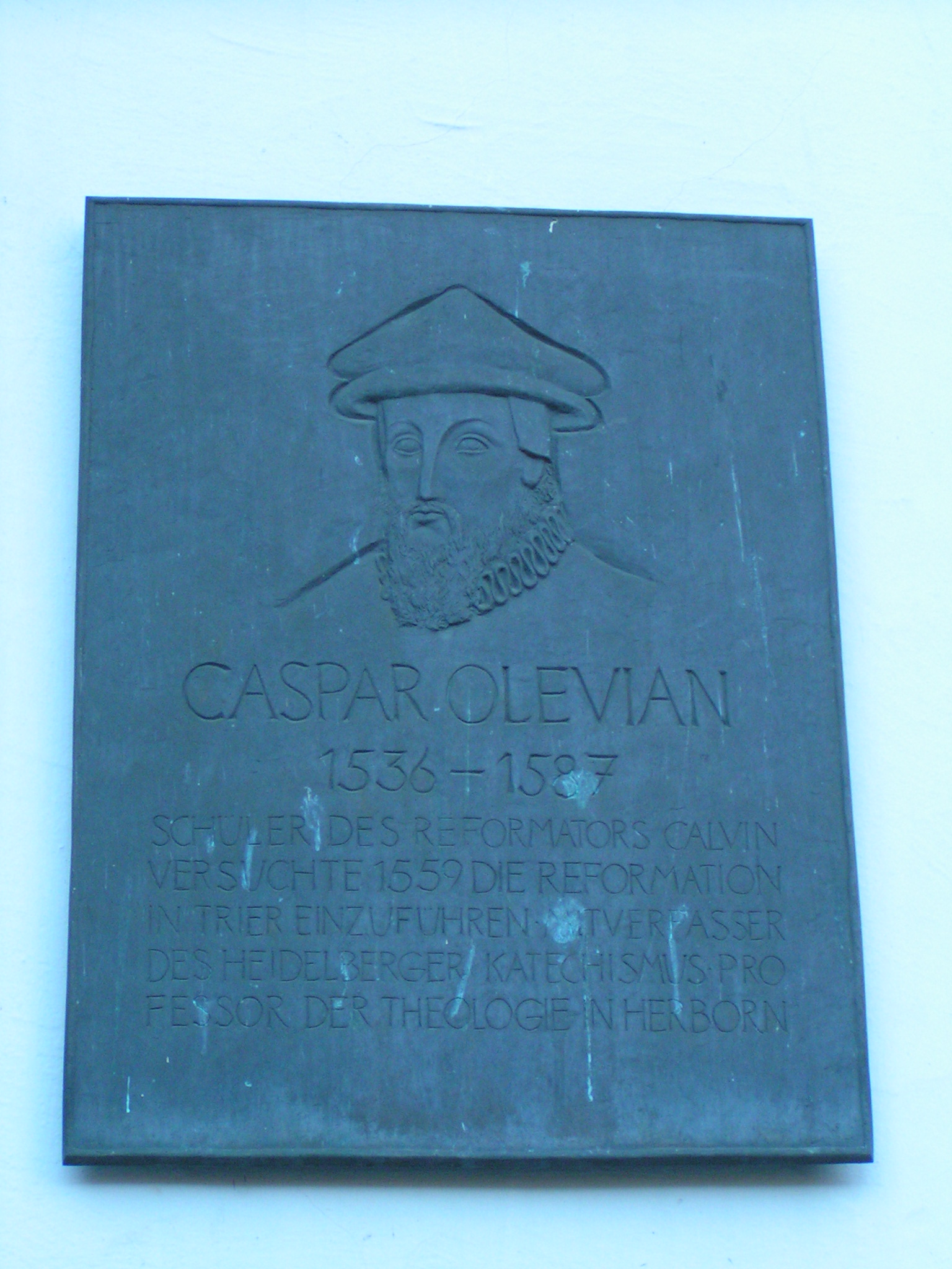 Kurfürstliches Palais, Trier, Germany